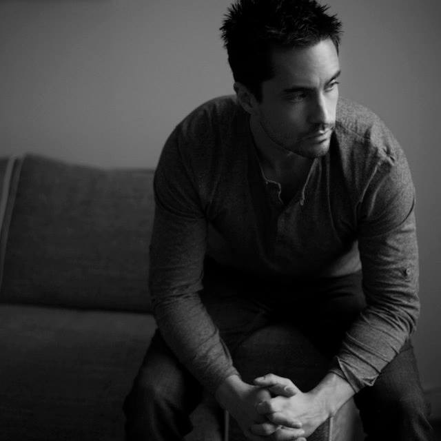 Depicted person: Nicolas van Beveren – French actor and film director